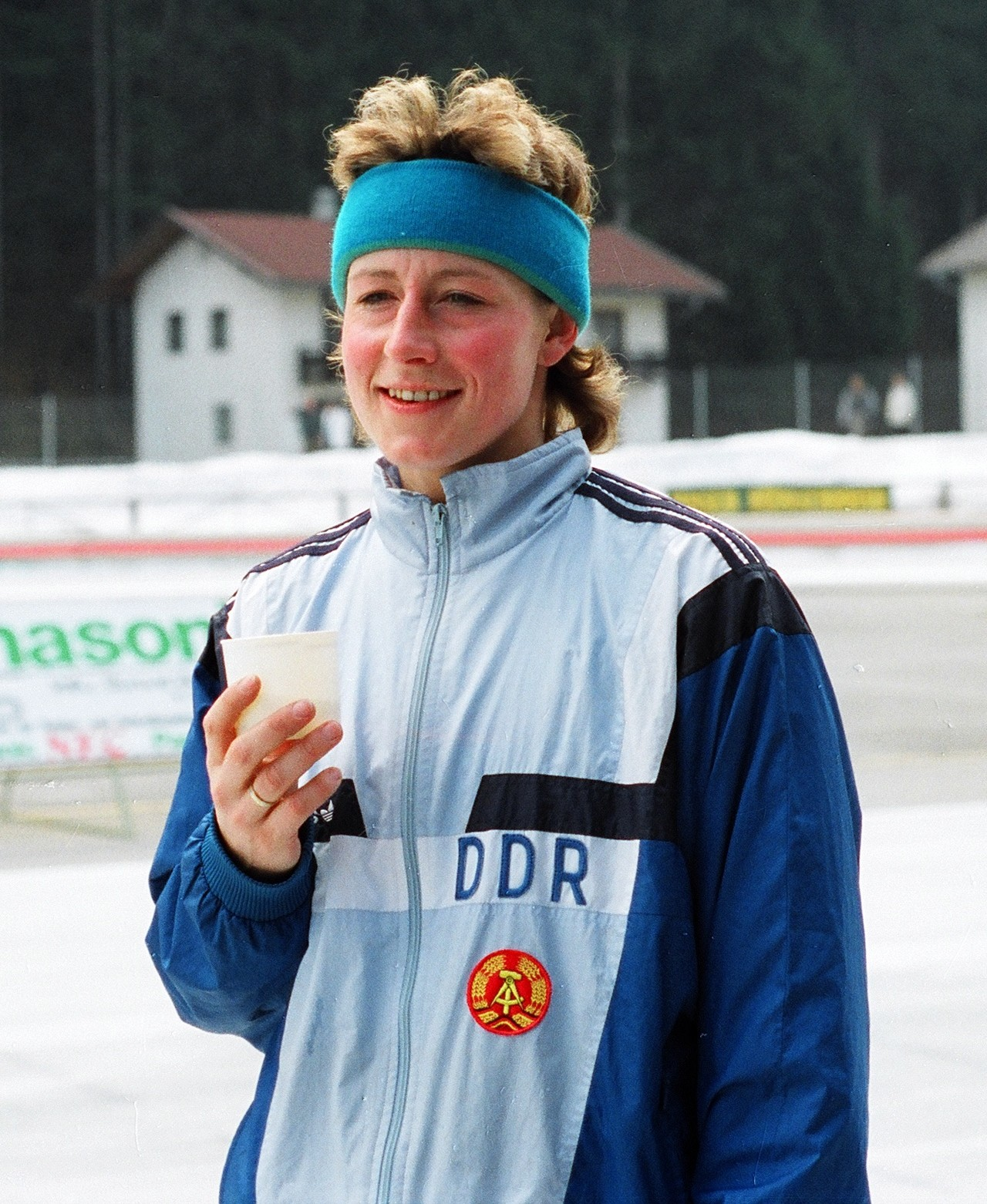 Christa Rothenburger is a former German speedskater